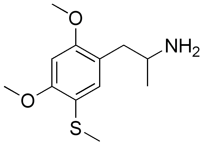 Chemical structure of Meta-DOT, drawn in ChemDraw by User:Mark PEA.